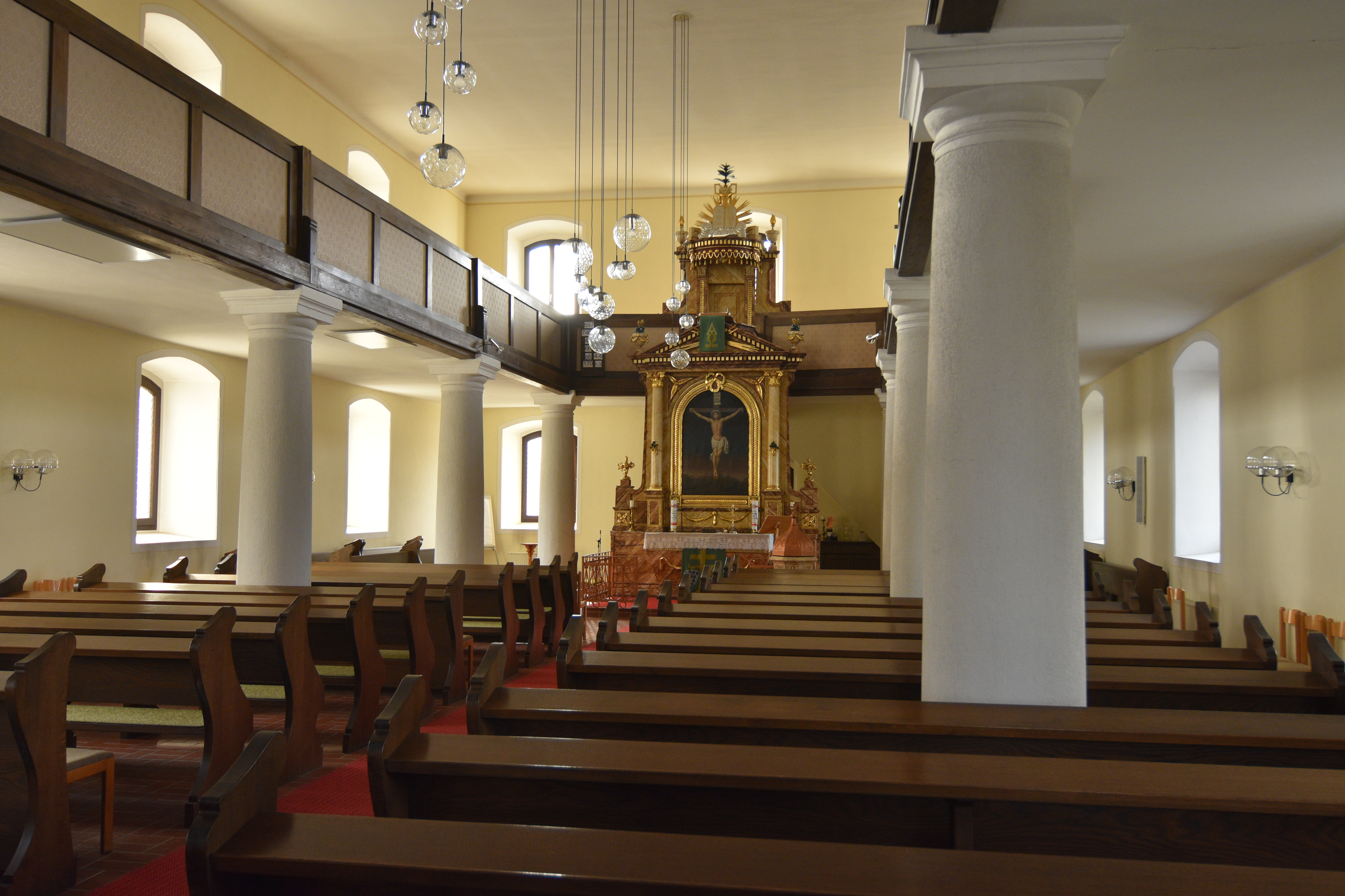 Evangelische Pfarrkirche Kukmirn - Interior